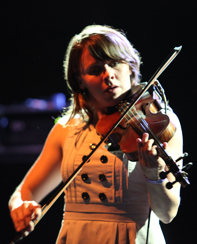 An amazing performance of Bell Orchestre at the [ Flux-S] festival in Eindhoven